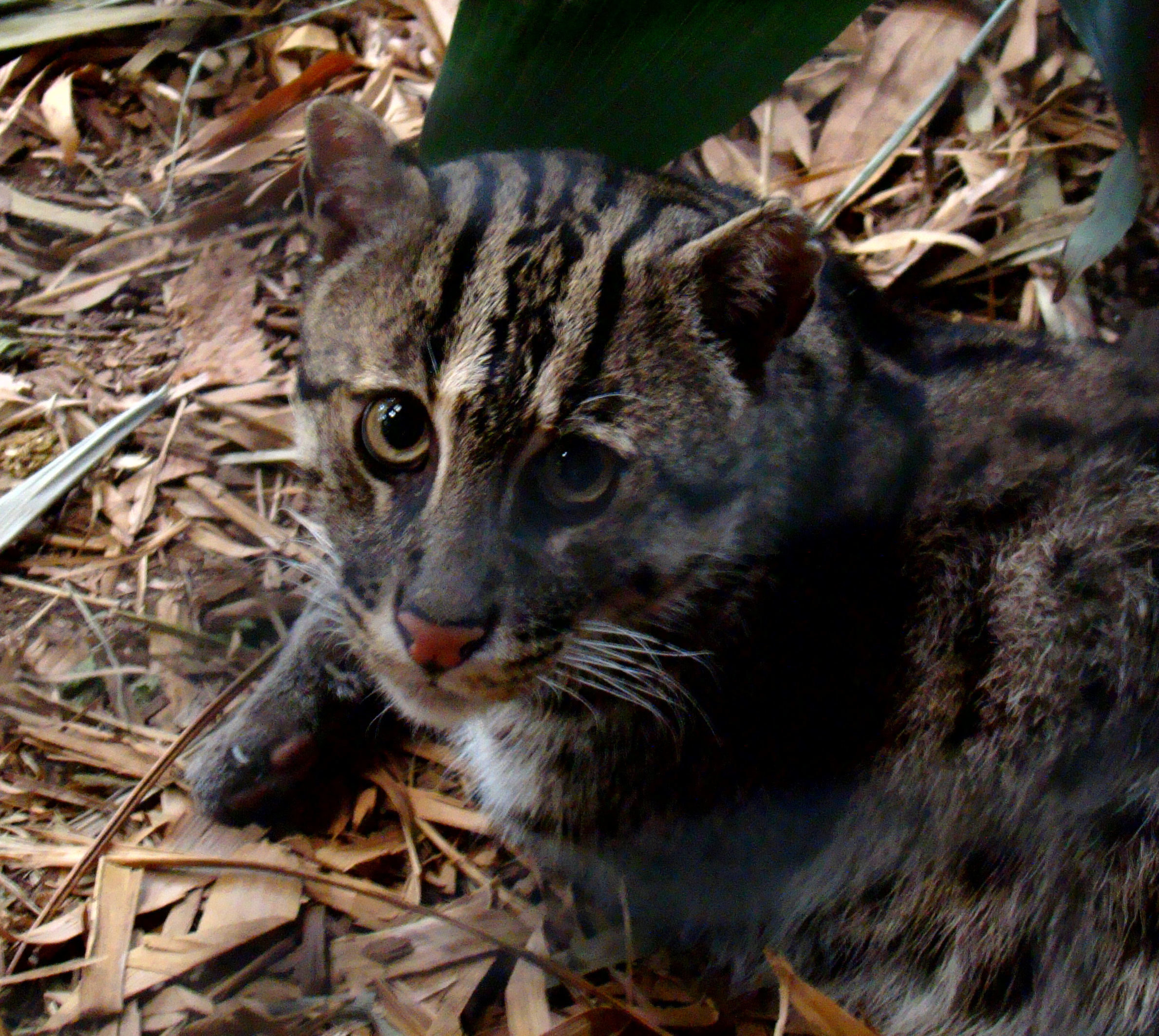 A fishing cat in captivity in Taronga Zoo, Sydney, Australia.